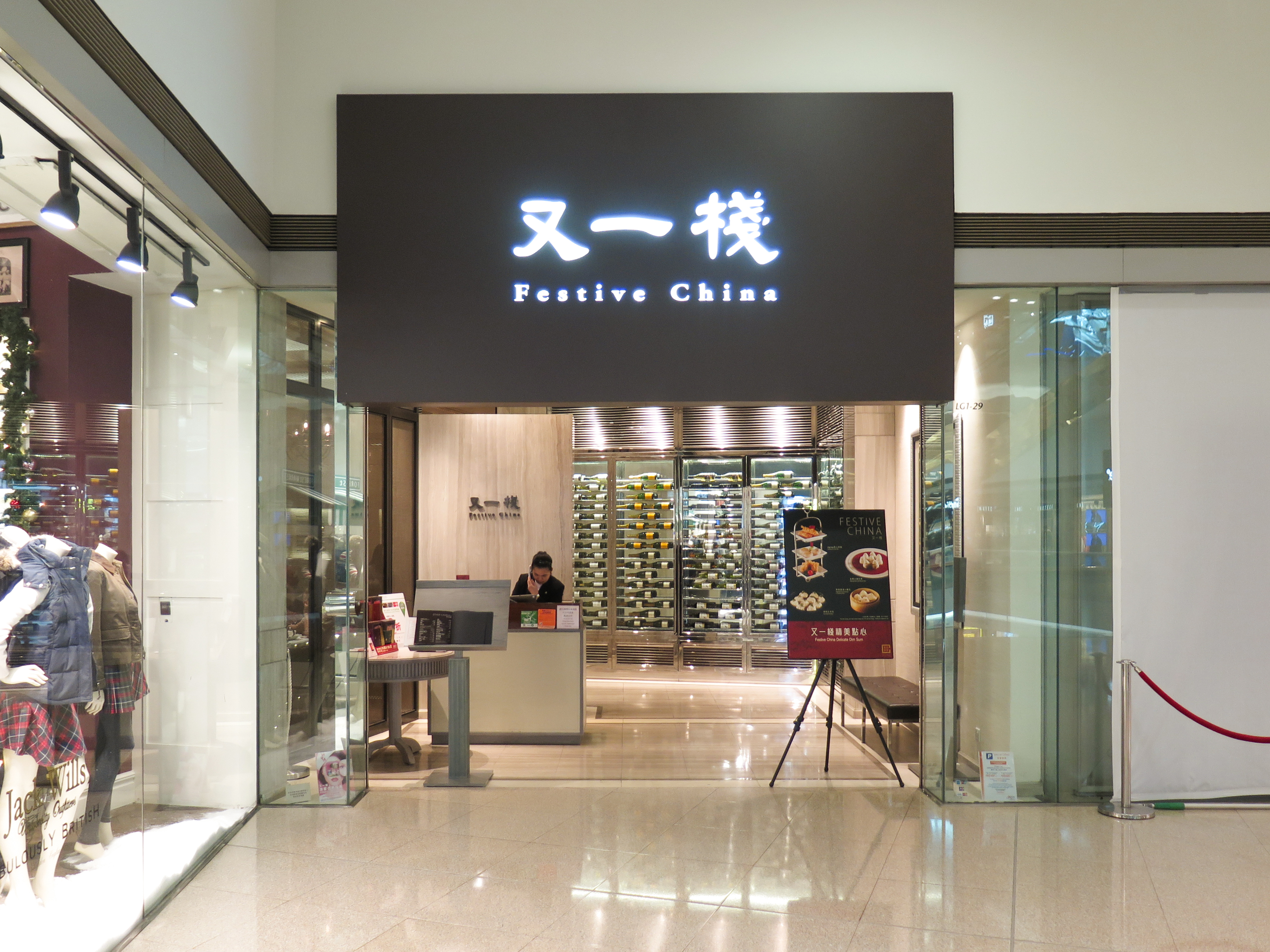 Festive China restaurant in Festival Walk